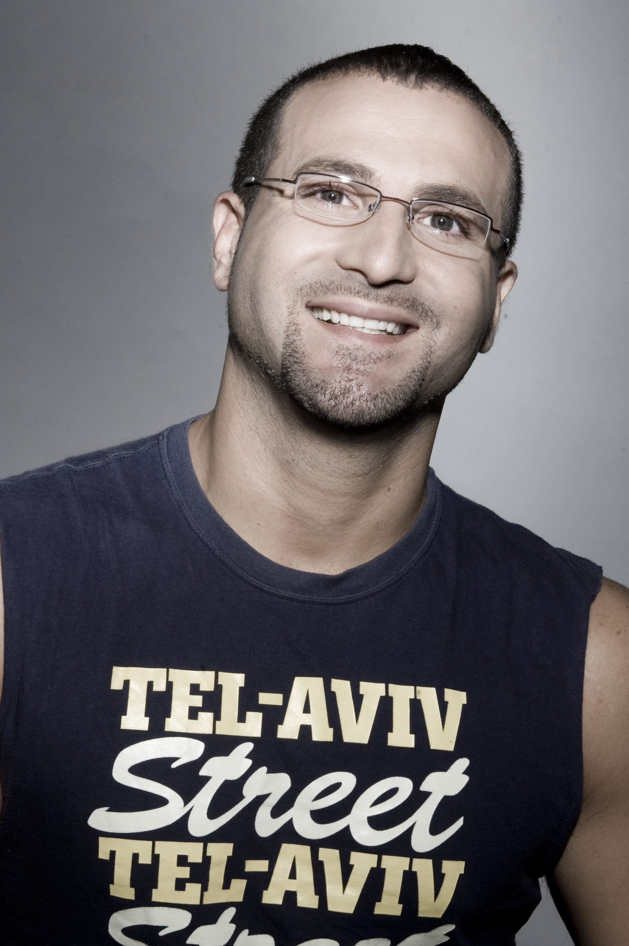 an Image of Moses Ben Shushan